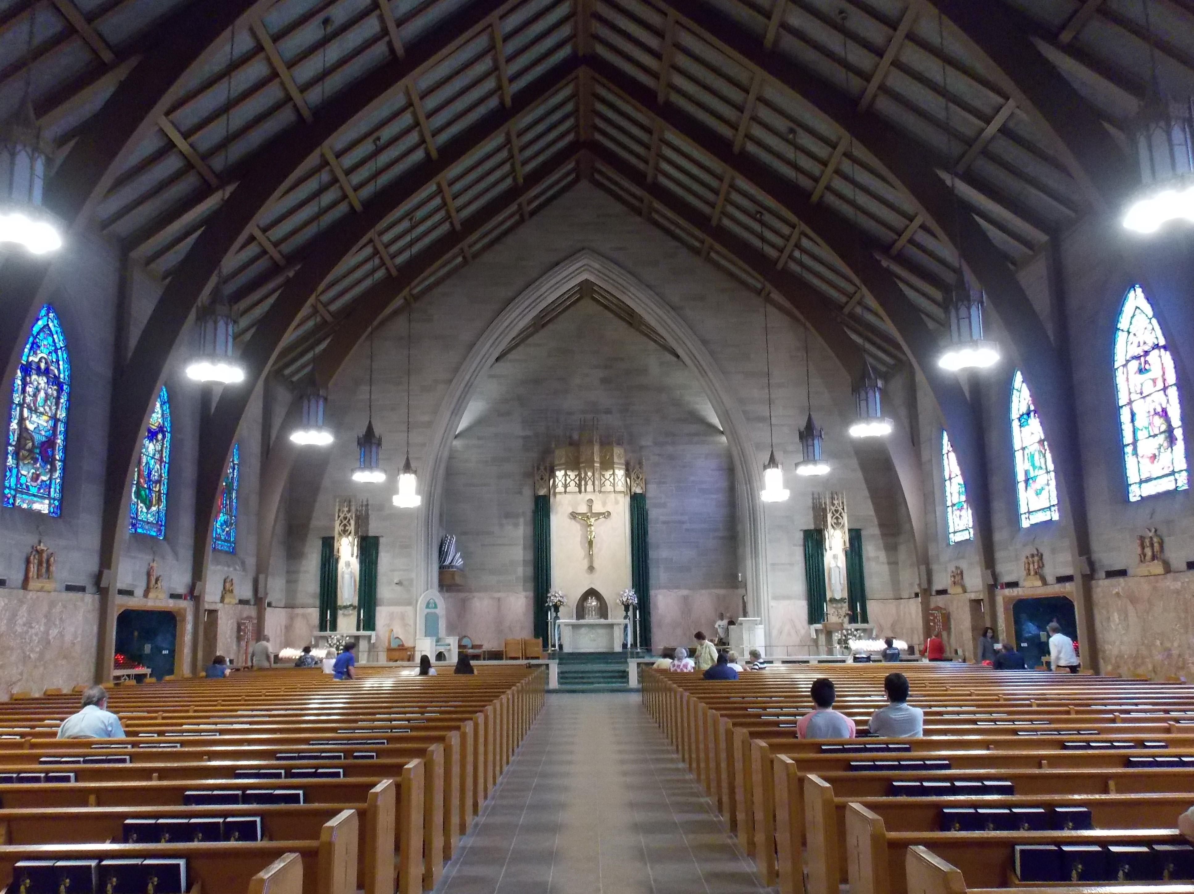 The interior of St. Francis of Assisi Cathedral in Metuchen, New Jersey.